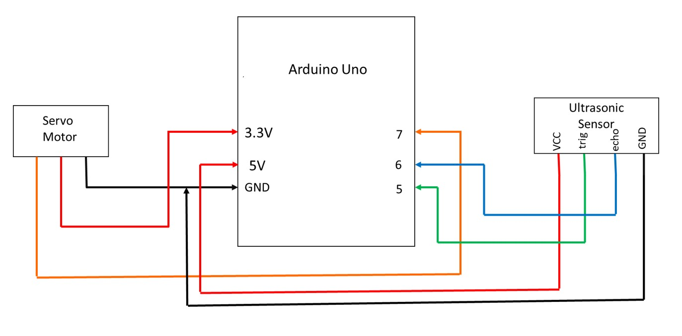 Circuit Diagram of Smart dustbin